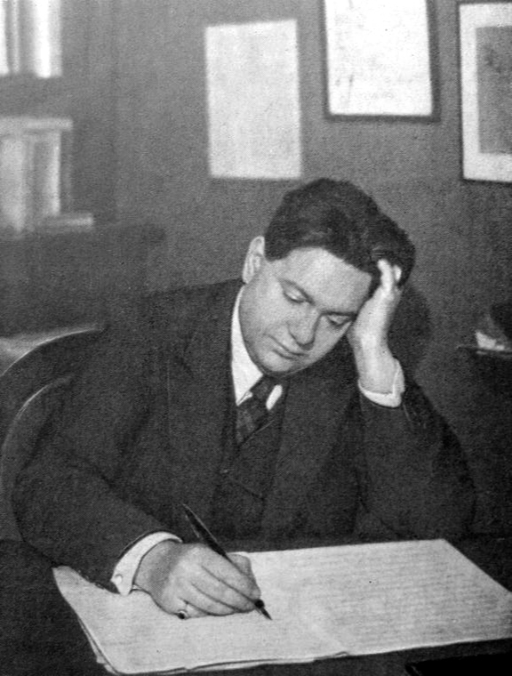 composer Darius Milhaud